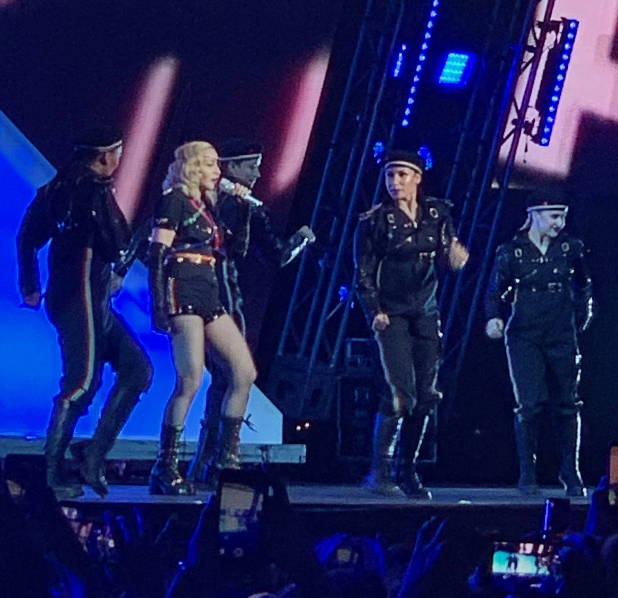 Madonna performing at the Stonewall 50 – WorldPride NYC 2019